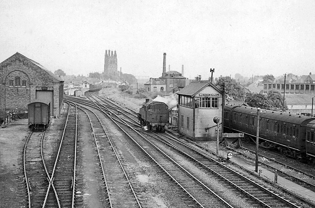 Wrexham Central, view SE towards Station. The station is in the distance, this photograph being taken from near where the new station was opened on 23/11/98. It is at the southern end of the ex-Great Central line from Bidston (also Seacombe until 4/1/60) and until 8/9/62 the northern end of the ex-Great Western branch from Ellesmere. The locomotive is an LMS Stanier class 3MT 2-6-2T, probably off a train from Seacombe.